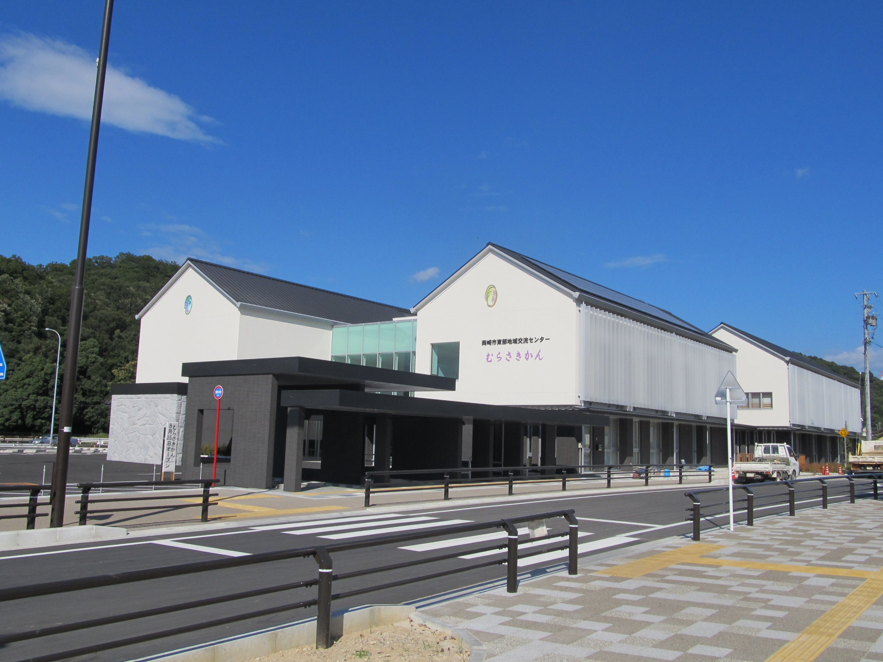 Aichi Prefecture Okazaki City East Area Community Center "Purple House (Japanese:むらさきかん Murasakikan) " Canon PowerShot SX130 IS